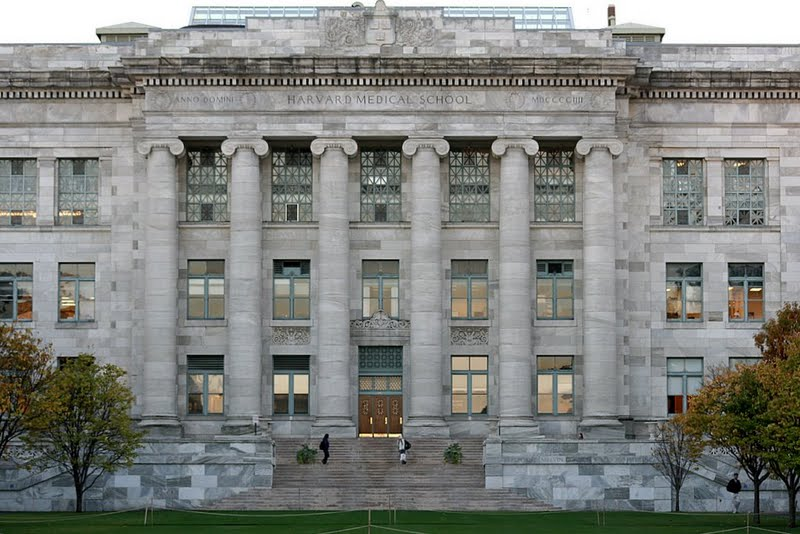 Harvard Madical School Boston